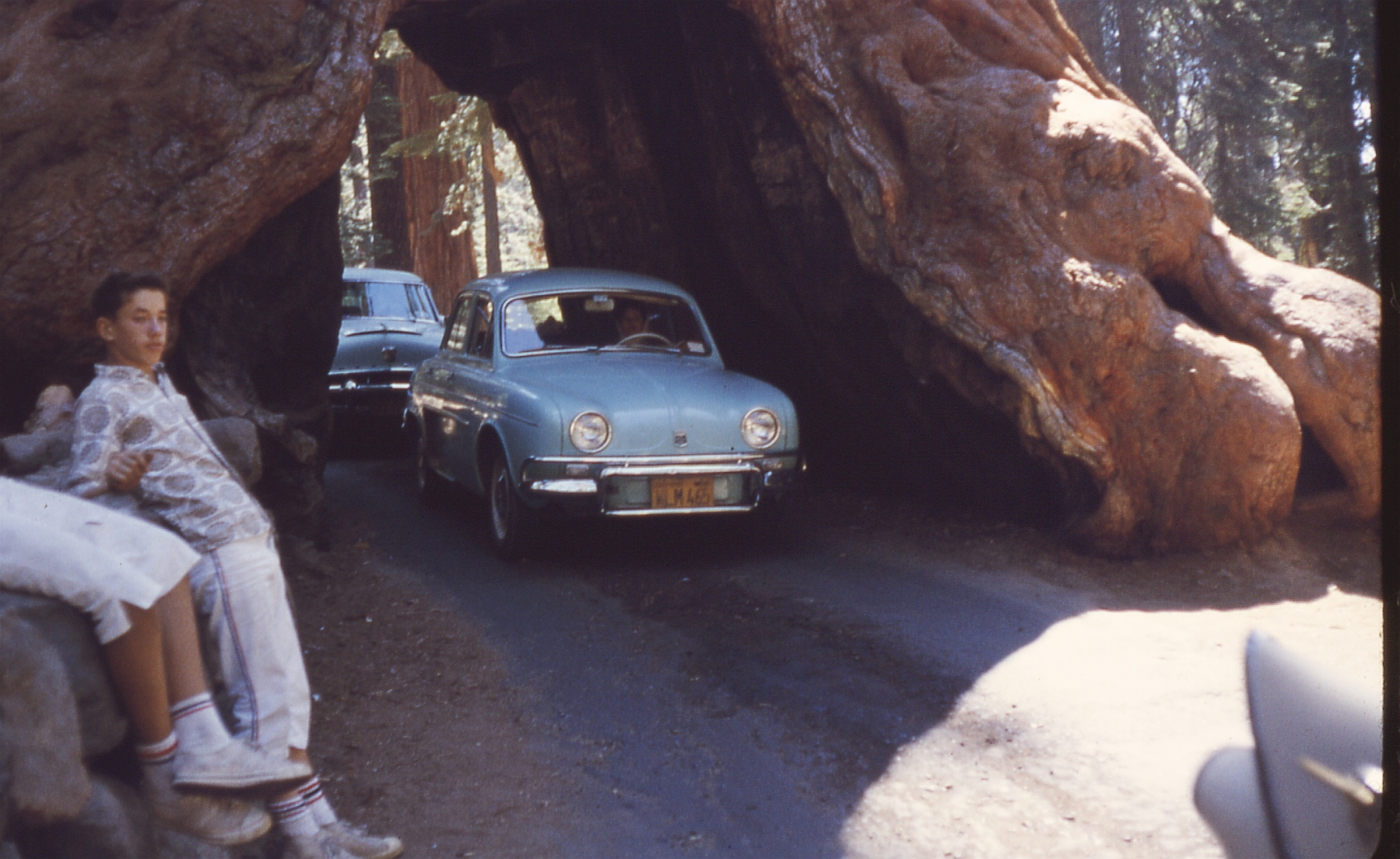 The outgoing side of the Wawona Tunnel Tree, Yosemite Park. Taken with an Exakta VX 35mm camera, using Ektachrome slide film.